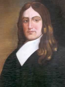 license tag